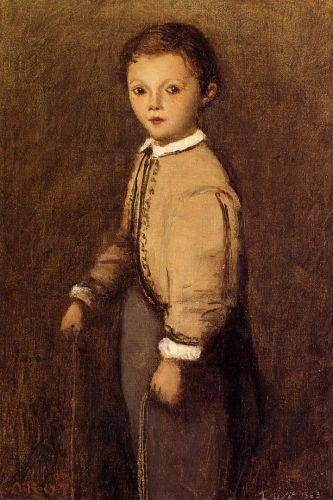 Portrait of Fernand Corot (1859-1911), grand nephew of the painter